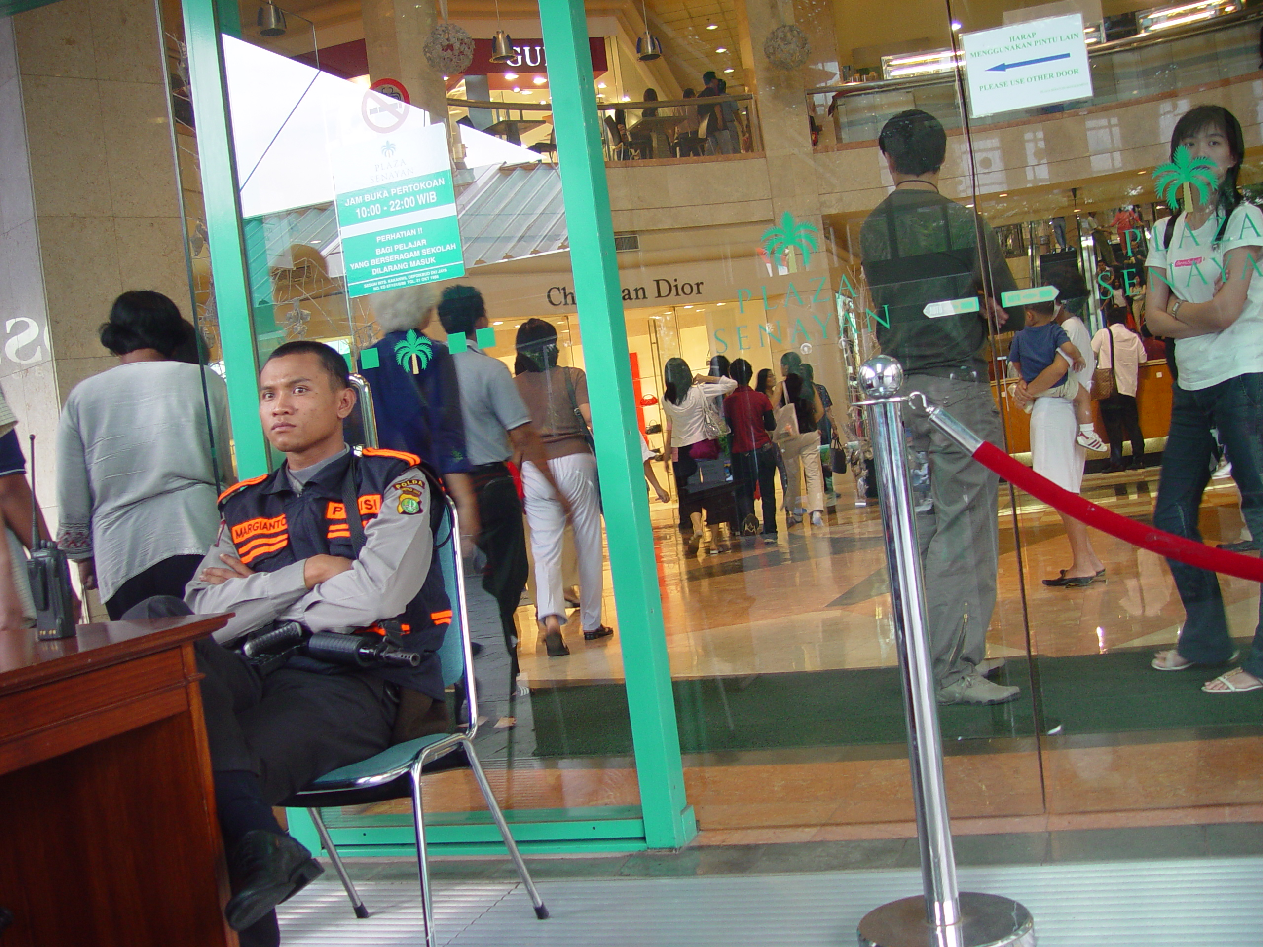 Mall cultural in Jakarta, Indonesia.